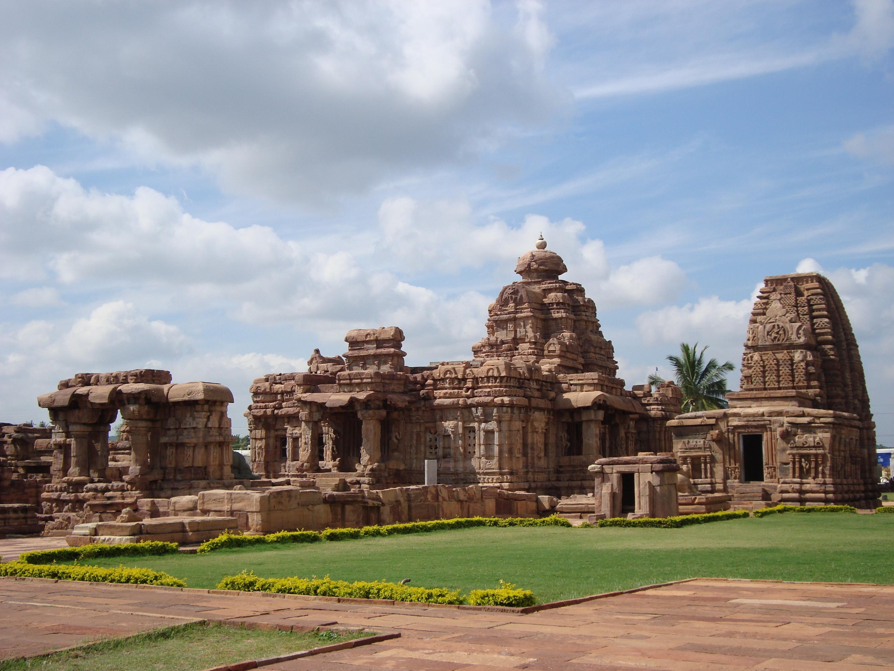 Mallikarjuna and Kashivishwanatha temples at Pattadakal Group of monuments at Pattadakal Manjuanth Doddamani, Gajendragad / Hubli, Karnataka, India